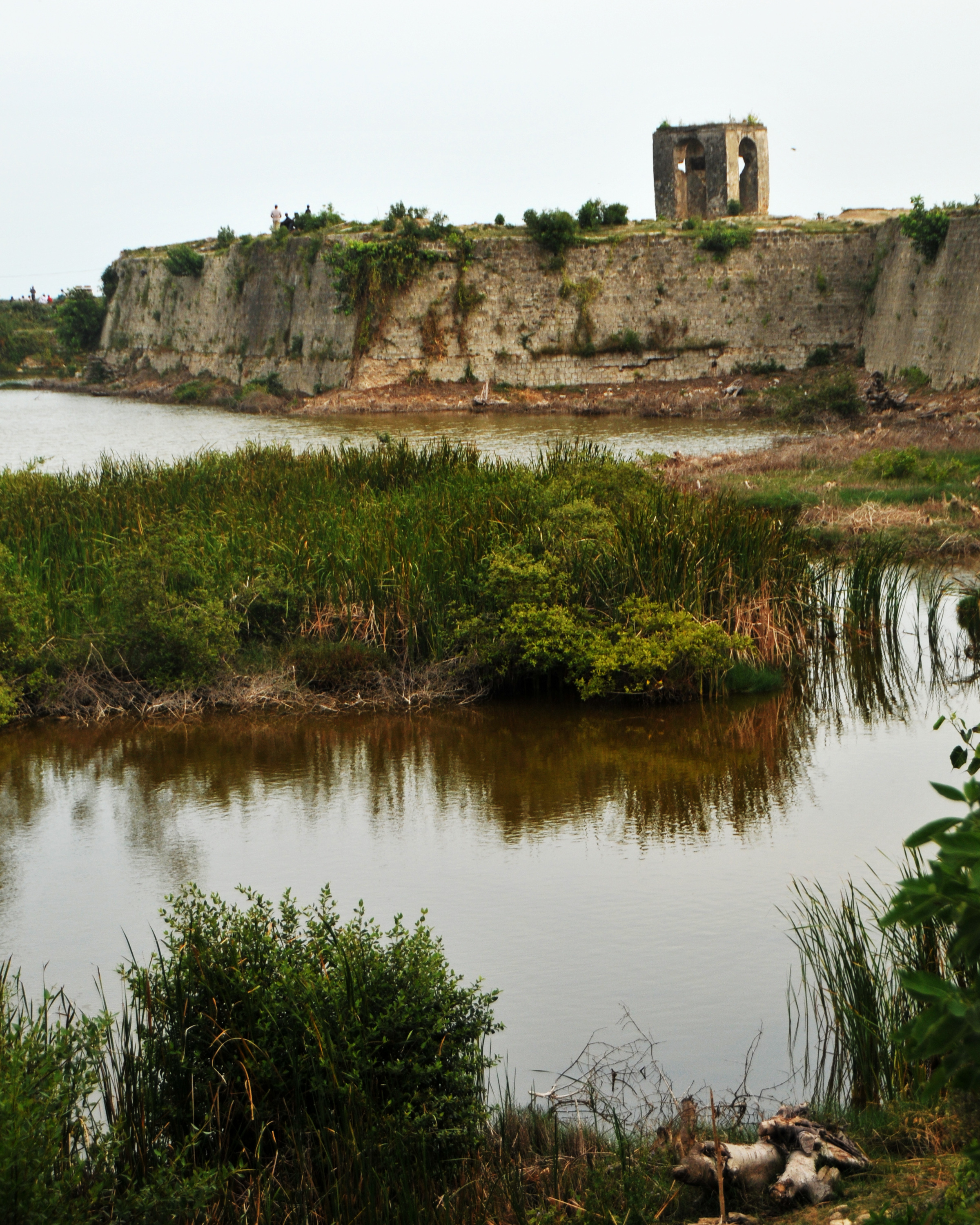 During the Sri Lankan Civil War the fort and the town of Jaffna changed hands several times. Notably the Sri Lanka Army garrison of the fort lead out a siege for months before being withdrawn in the 1980s. As a result of the war much of the fort has been destroyed.